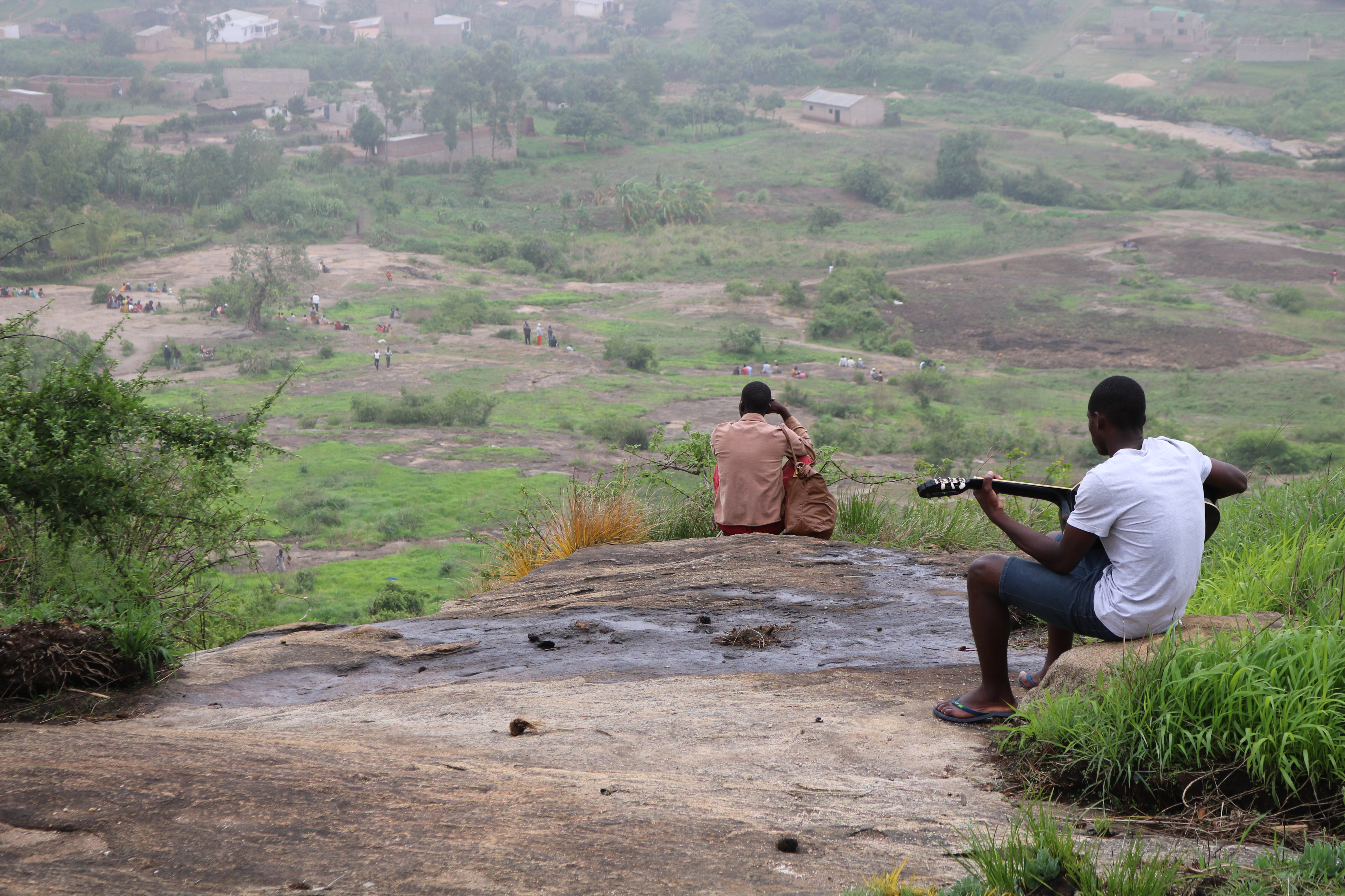 This is an image with the theme "Play" from: Mozambique